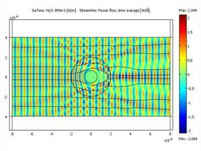 Illustration of how a cloaking device would appear to visible light when activated.